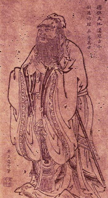 The teaching Confucius. Portrait by Wu Daozi, 685-758, Tang Dynasty.